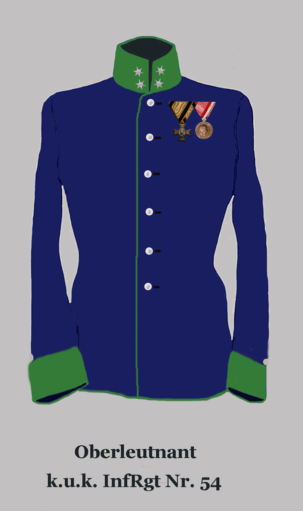 1st Lieutenant of the Austria-Hungarian infantry (German style tunic with apple-green regimental identification color and ywhite buttons)